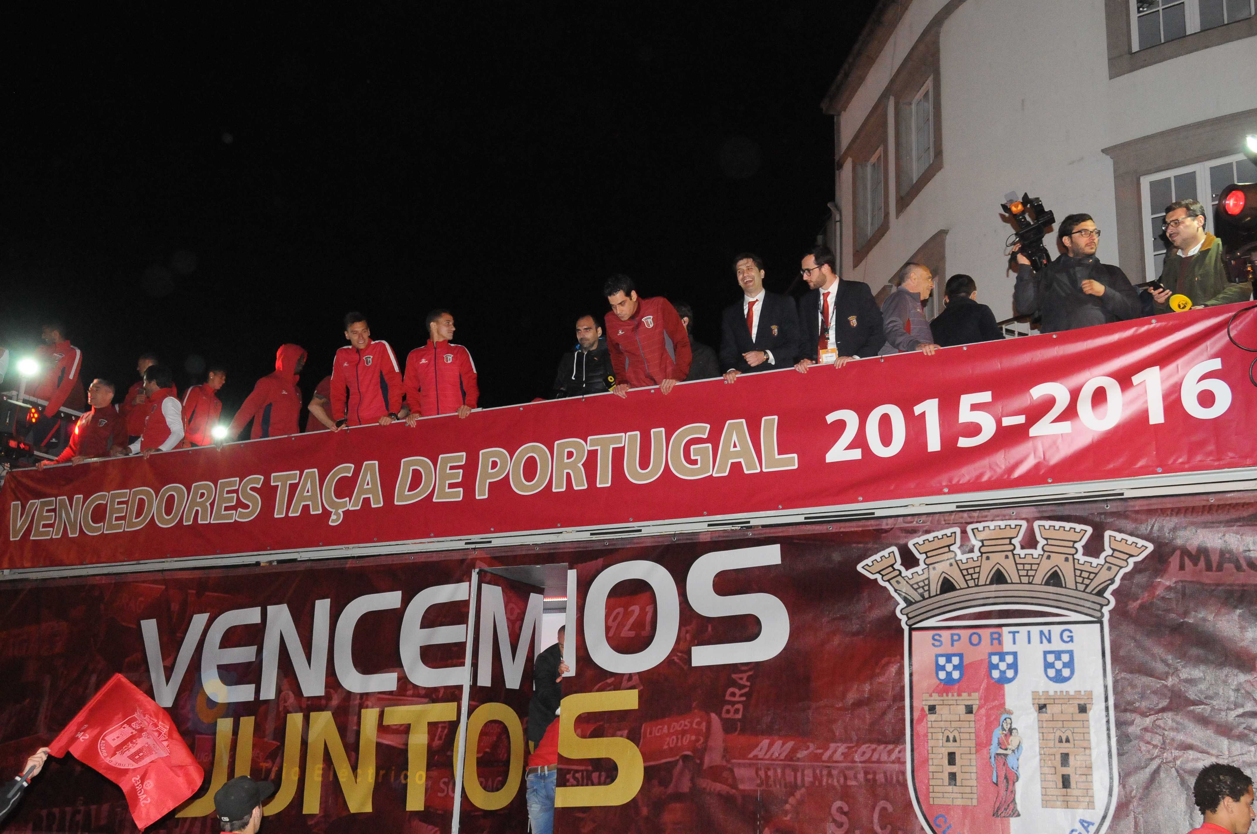 Sporting Clube de Braga in 2016 in Braga